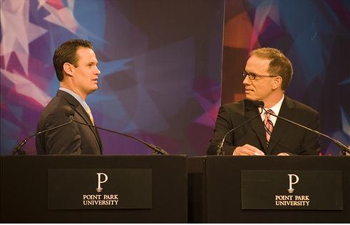 Mayor of Pittsburgh Luke Ravenstahl debates Republican challenger Mark DeSantis at the mayoral debate held at Point Park University on October 30th. The debate came seven days before the elections.